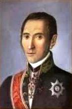 Mikhail Barataev, Russian-Georgian official and scholar.